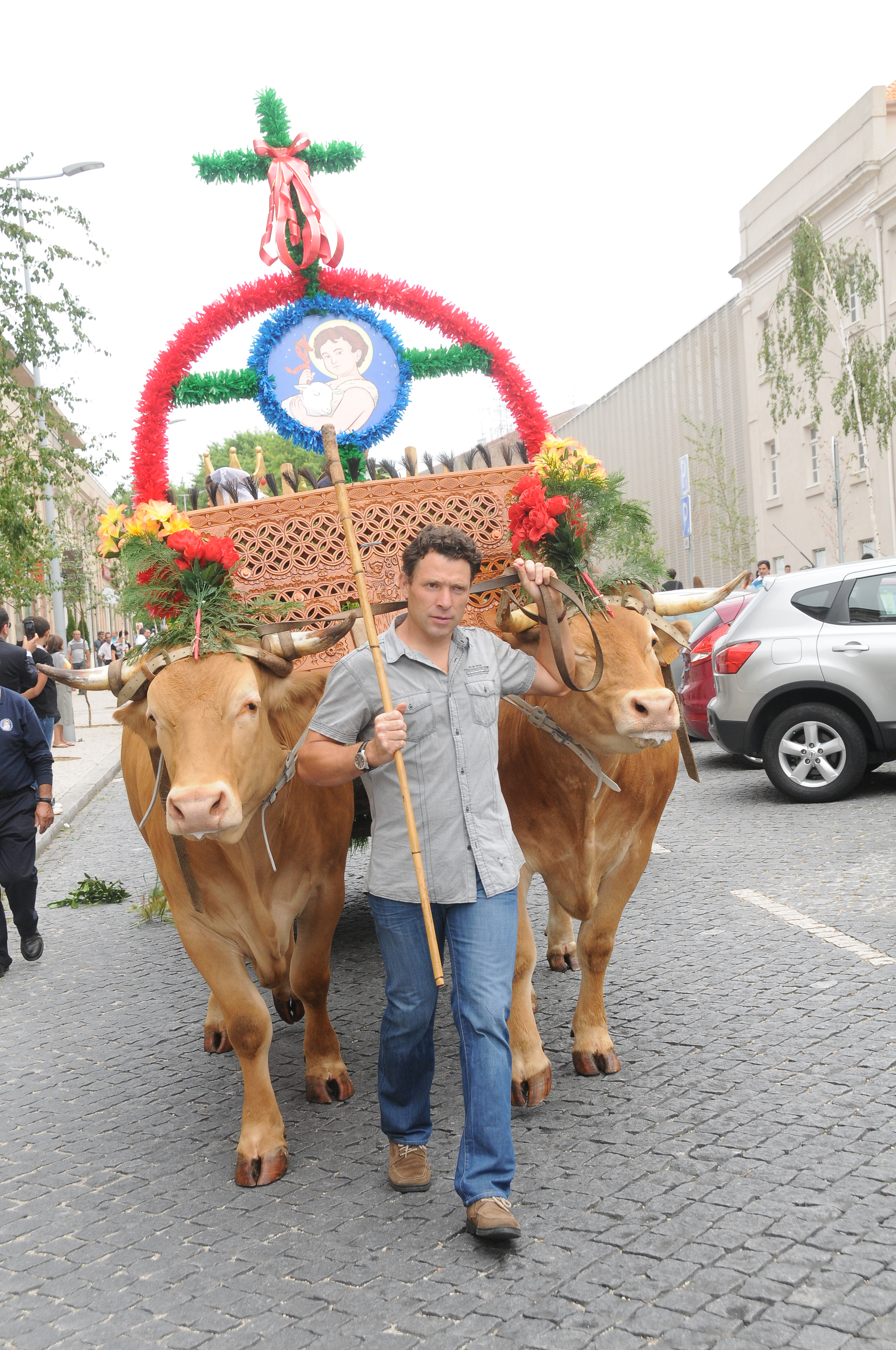 Dance of the Shepherds 2015 in Saint John Feast in Braga, Portugal